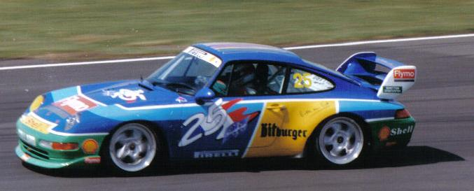 Emmanuel Collard driving at Silverstone during the 1995 Porsche Supercup season. The livery is based on the Benetton's Formula One livery that year, as Collard was also the team's test driver.